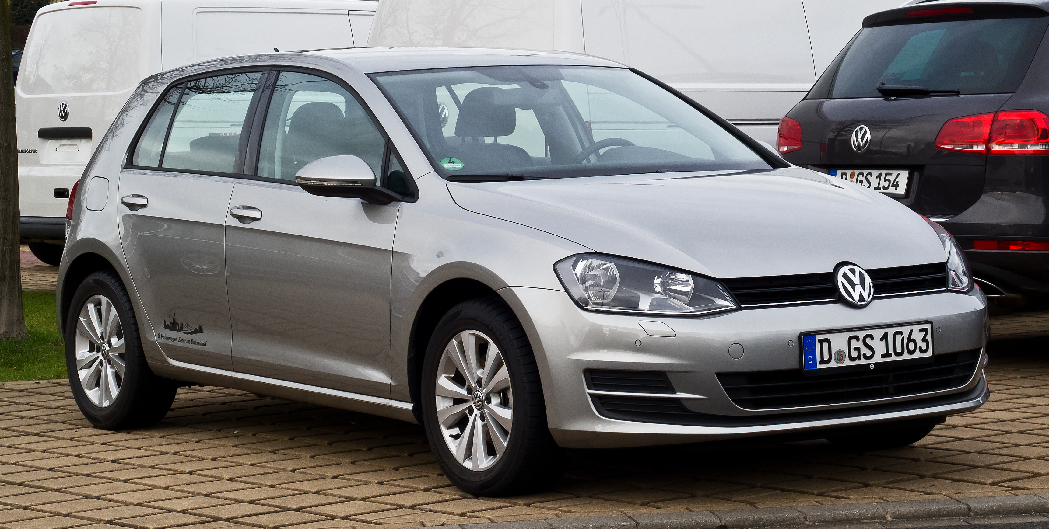 VW Golf 1.6 TDI BlueMotion Technology Comfortline (VII)